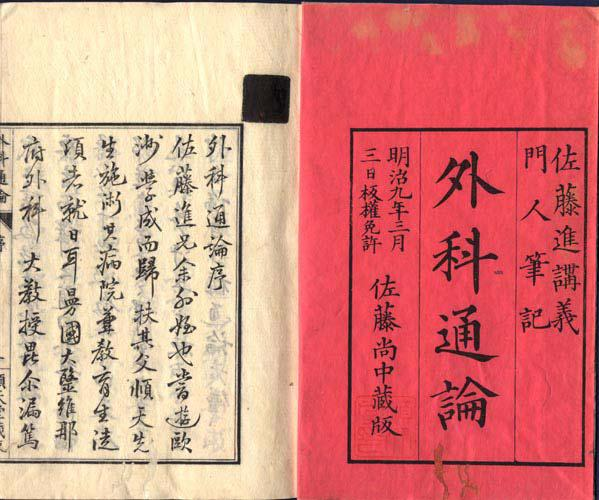 First page of Geka tsuron, as reprinted in [1]